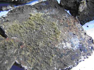 Biodegradation in 2 months of a VEGEMAT(R) plate of 1 cm thickness (100% plant-based bioplastic / agroplastic)